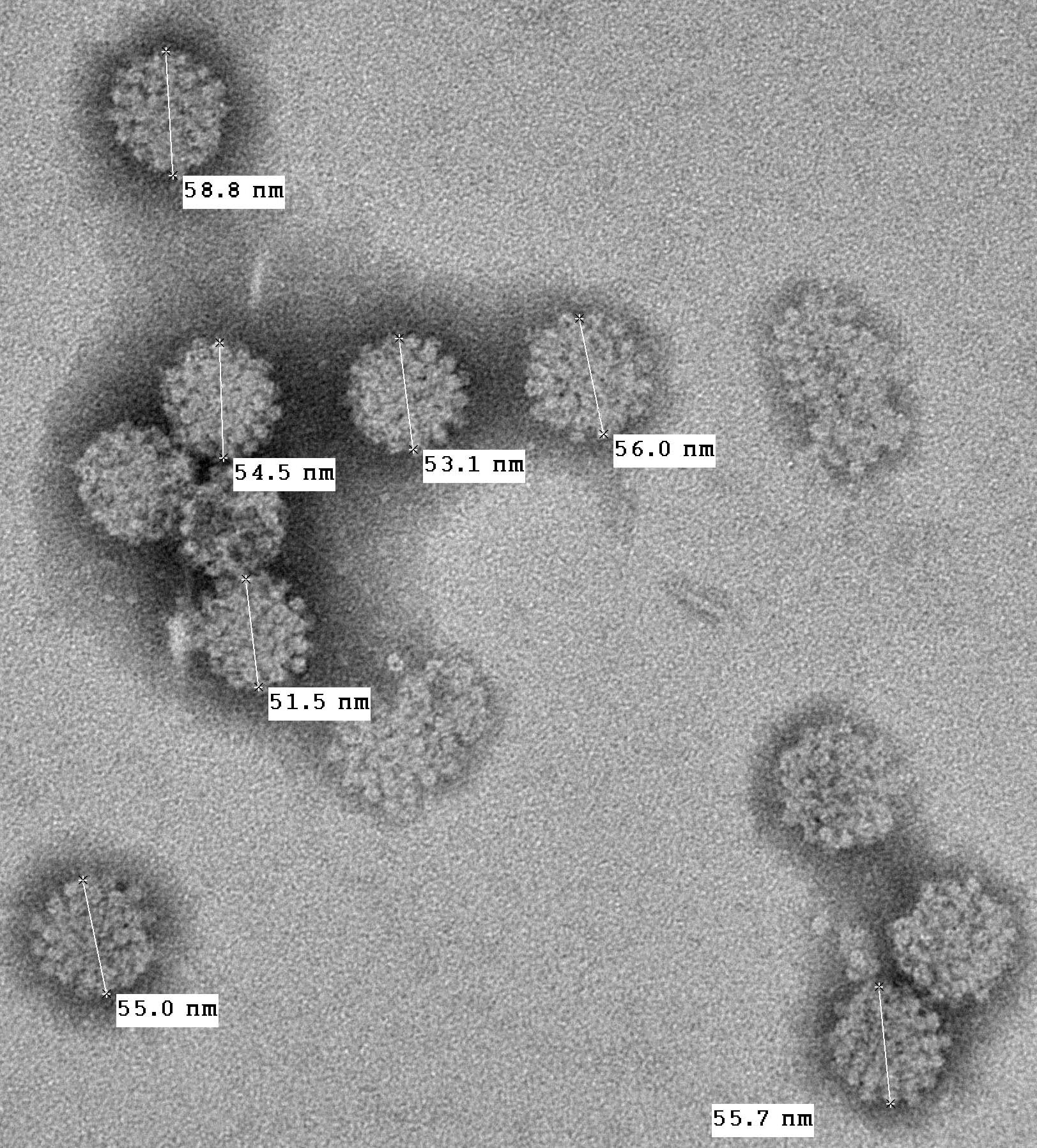 Electron microphotograph of Merkel cell polyomavirus virus-like particles (x50,000 mag.). These particles were produced by expressing MCV structural proteins VP1 and VP2 in 293 cells.